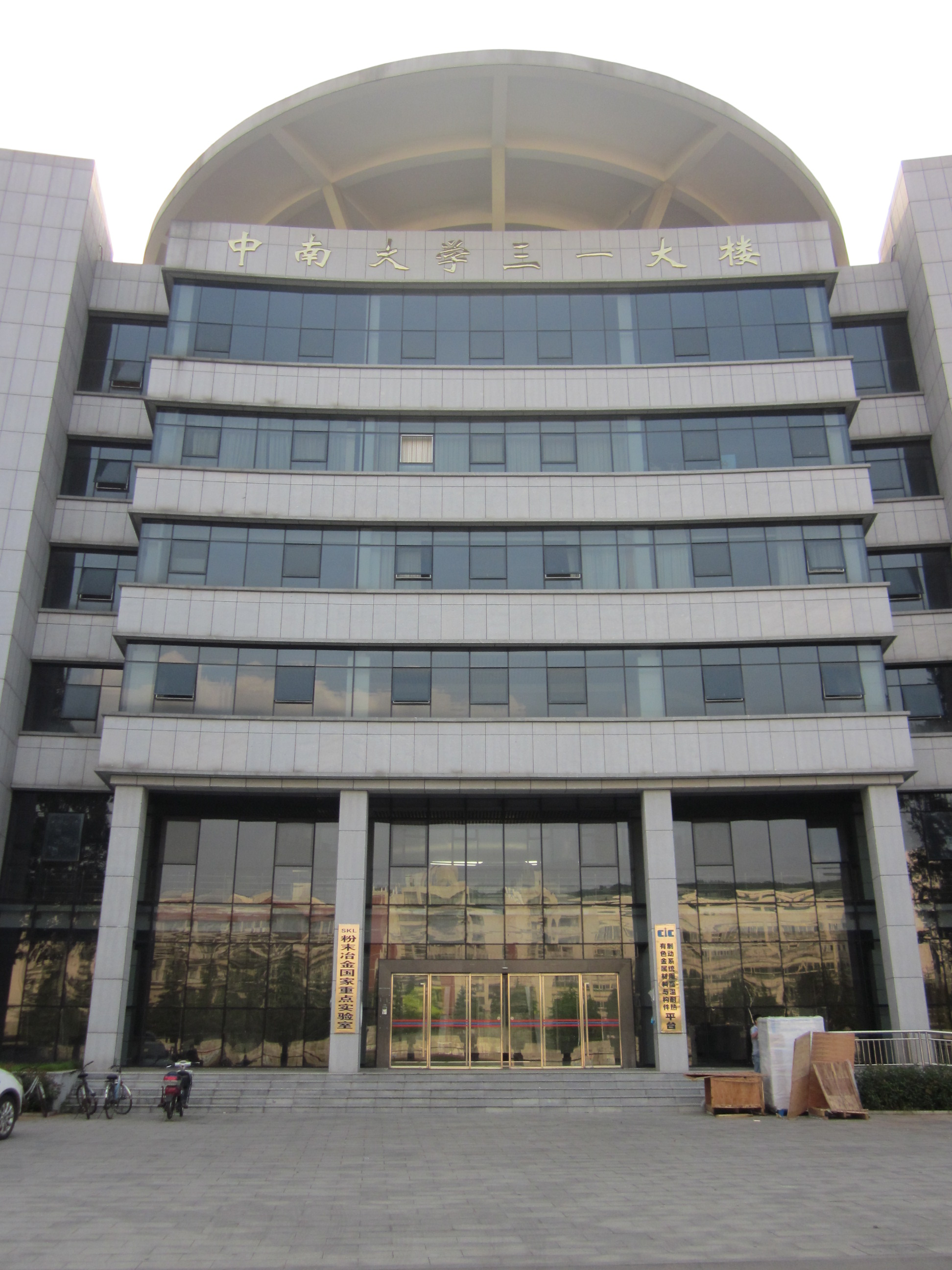 Central South University (CSU